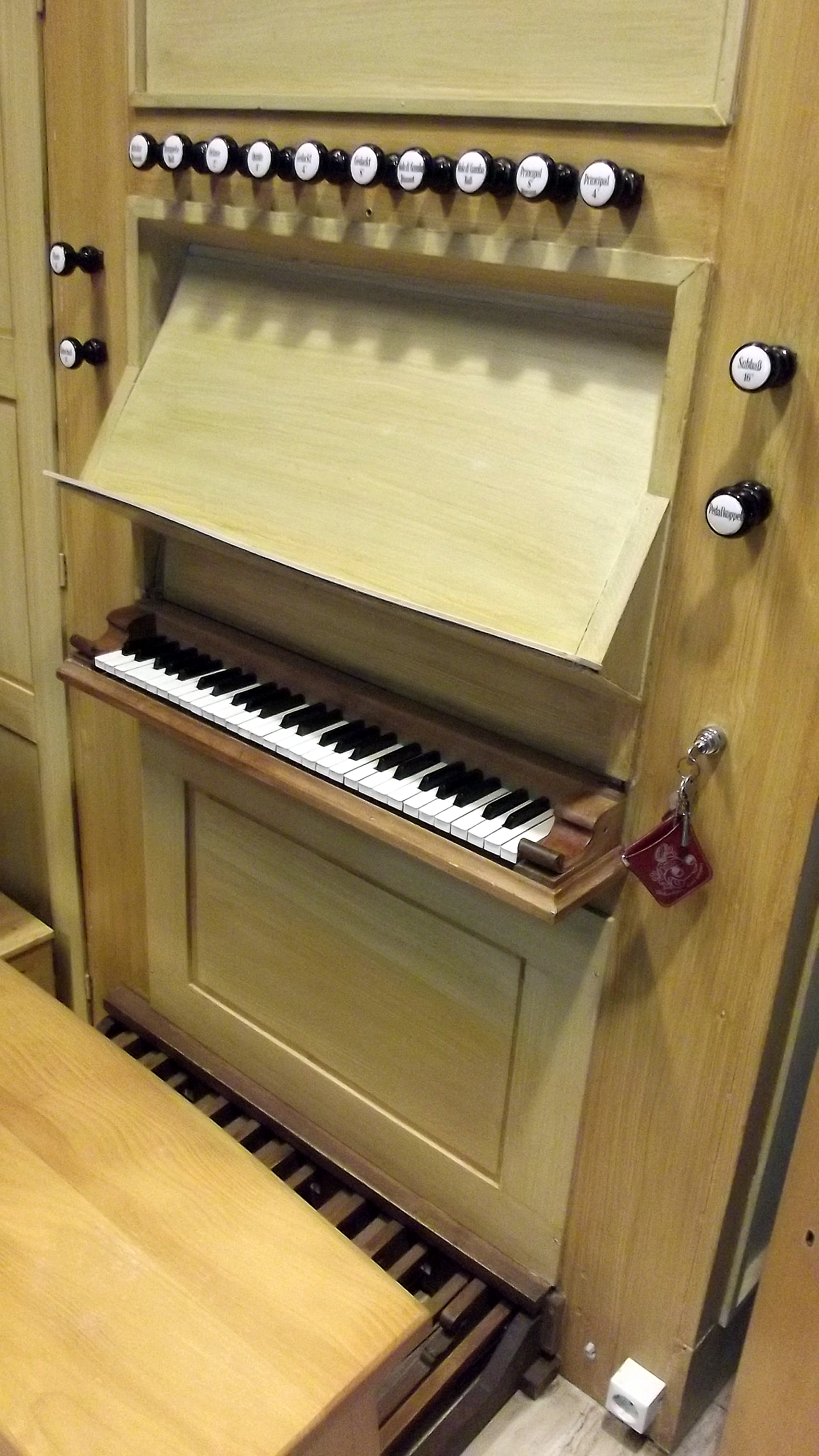 Interior of the roman catholic church in Rappweiler, Saarland